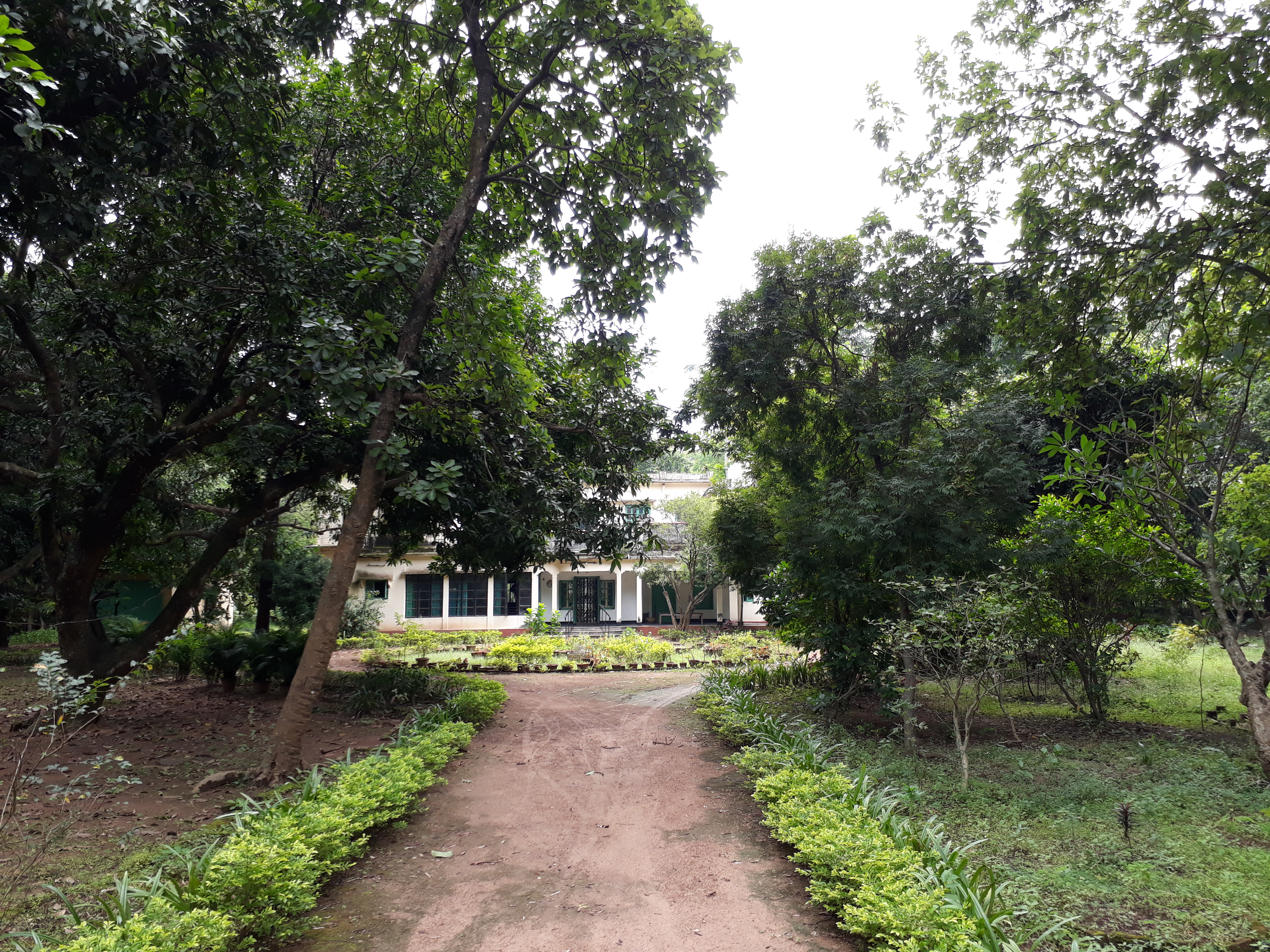 House of Nobel laureate economist Amartya Sen in Santiniketan, West Bengal, India